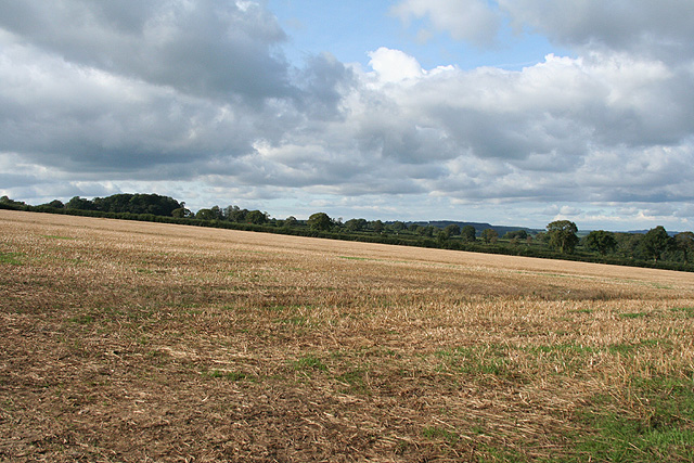 Stockland: by Stockland Great Castle. This field adjoins the remains of the iron age camp, some of which was ploughed out in the nineteenth century. Looking north-north-west